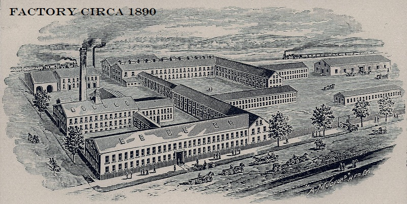 The Original Colchester Rubber Company Factory, Circa 1890